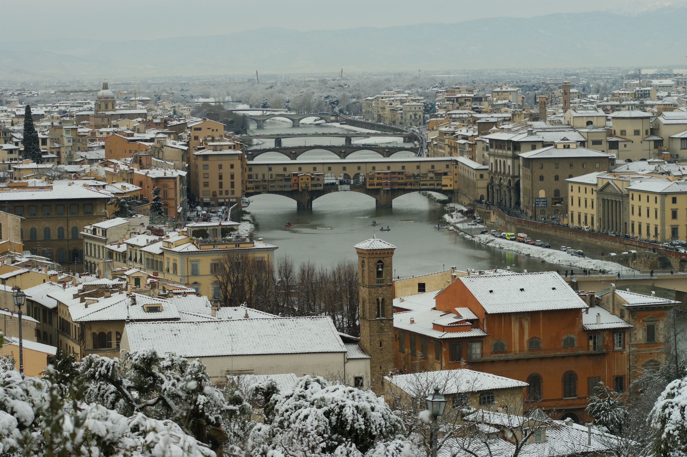 Snow-capped view of Florence (Ponte Vecchio)